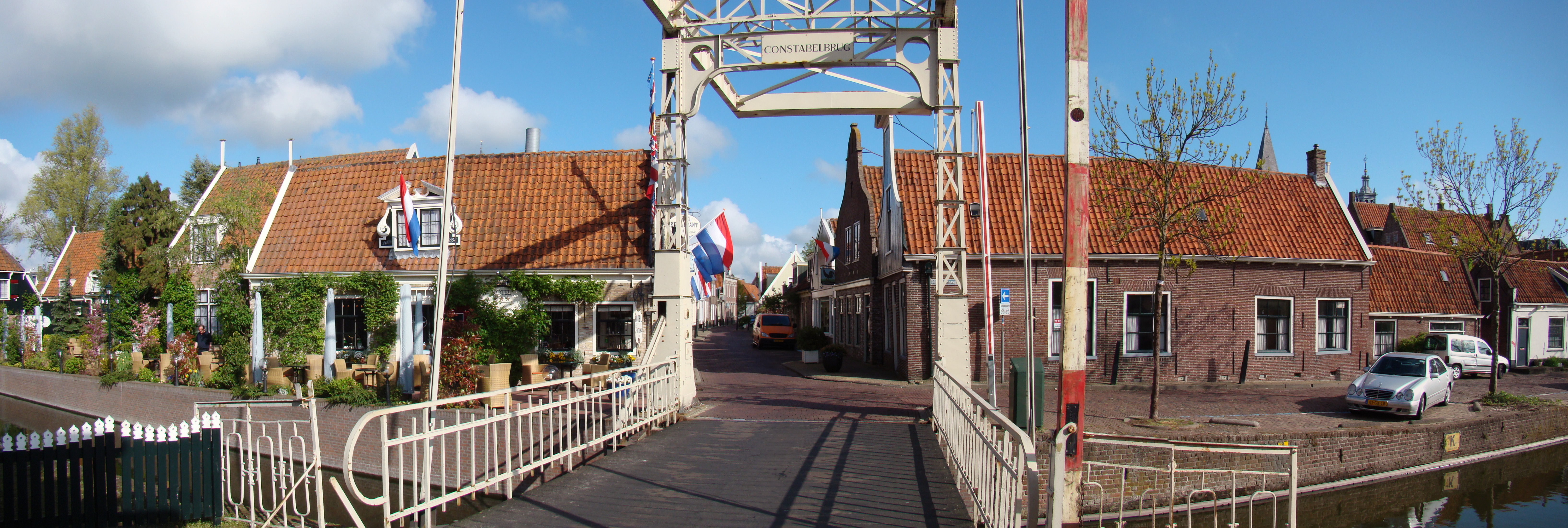 Monumental buildings in Edam (Netherlands)